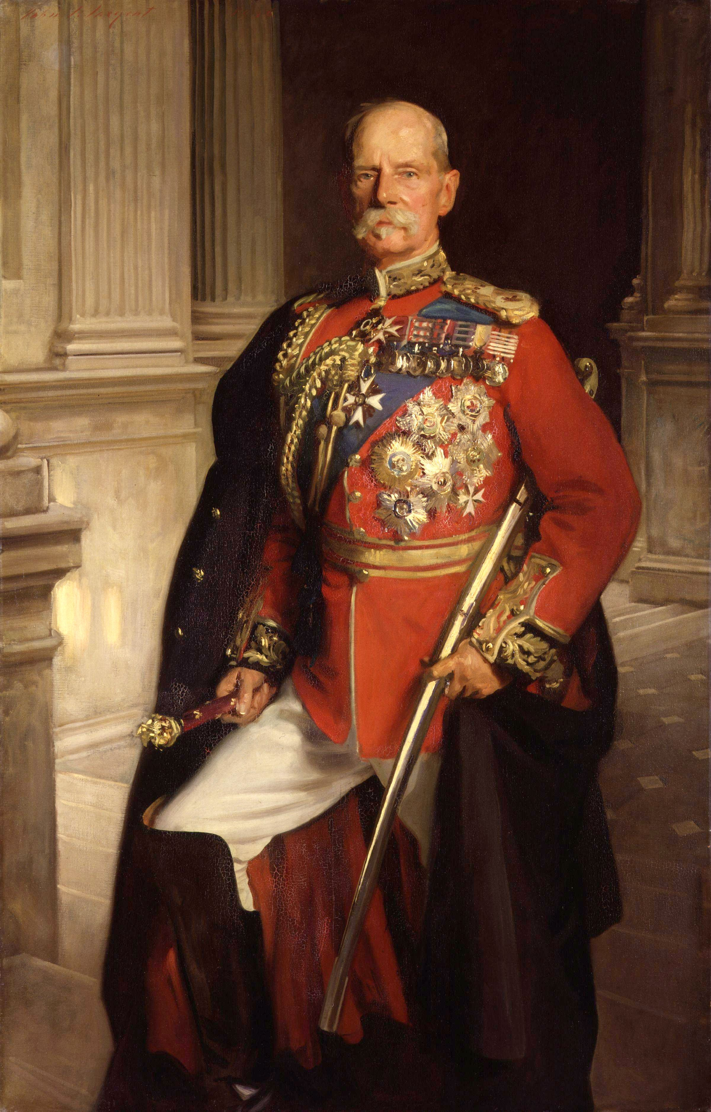 All images in this batch have been confirmed as author died before 1939 according to the official death date listed by the NPG.